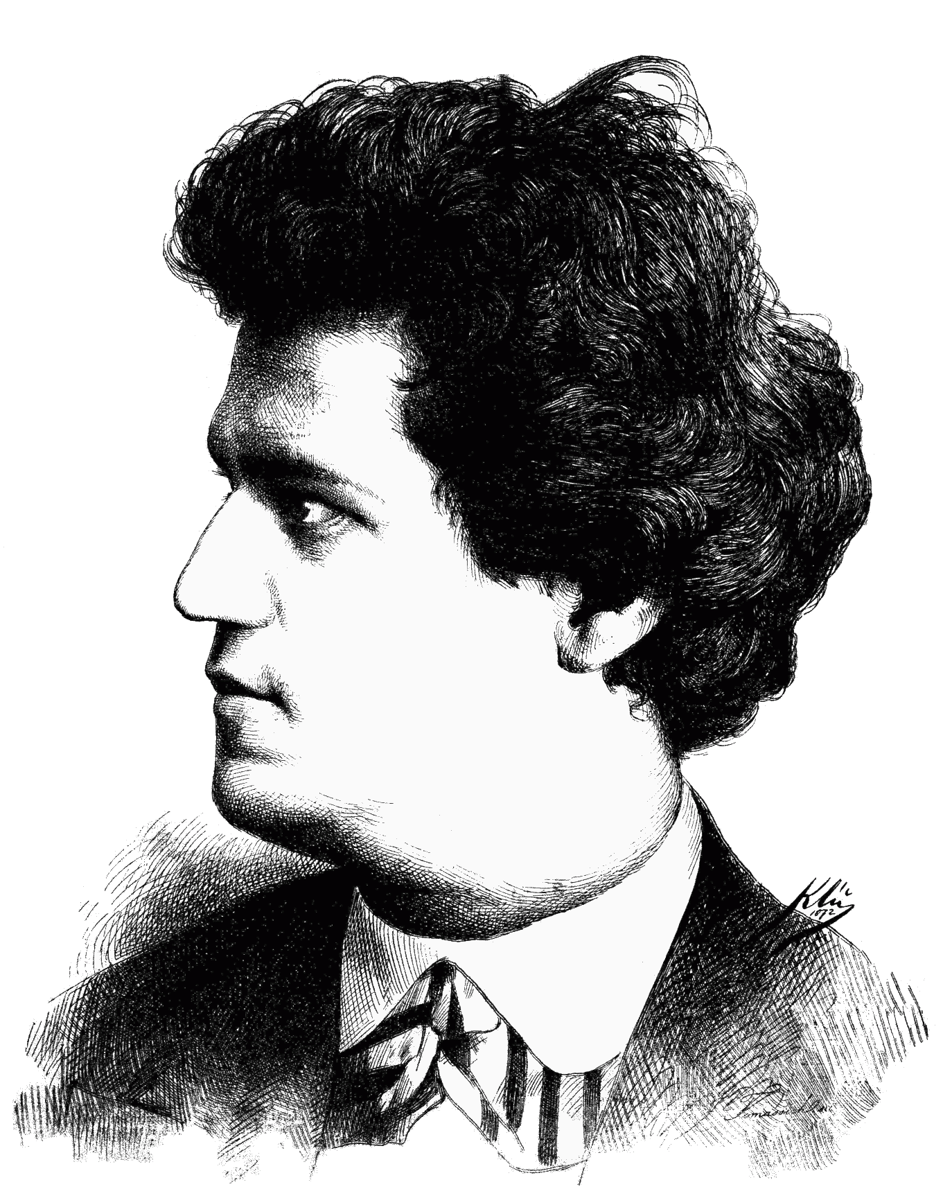 Emerich Robert (1847-1899), Austrian-Hungarian actor